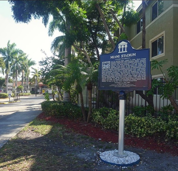 This historic marker was placed at the site of the former Miami Stadium on December 16, 2017 to commemorate the historic ballpark. The sign is located at the current Miami Stadium Apartments in the Allapattah neighborhood of Miami.